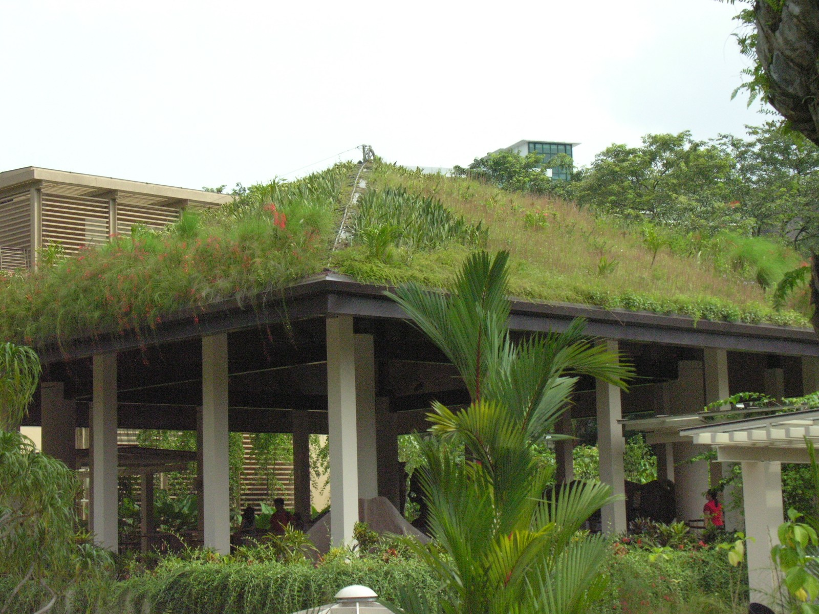 Singapore's first "green roof" at the Green Pavilion in the Singapore Botanic Gardens.